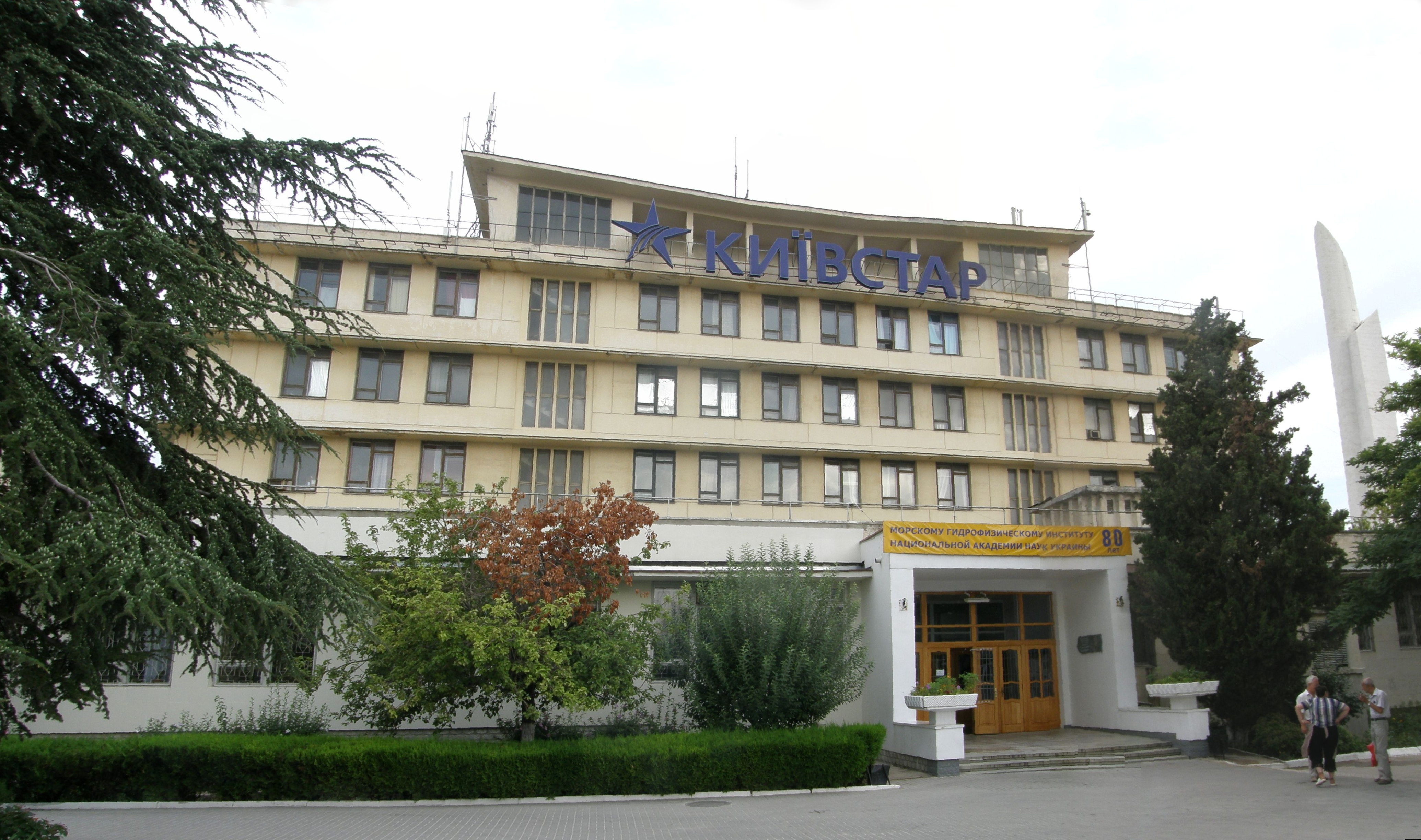 Hydrophysikalisches Institut in Sewastopol